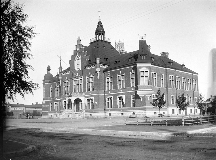 The Old Town hall of Umeå 1902. Photo acquired from Bernt Karlsson.